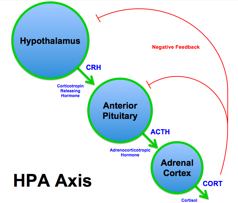 Basic hypothalamic–pituitary–adrenal axis summary (corticotropin-releasing hormone=CRH, adrenocorticotropic hormone=ACTH). Original work from Jessica Malisch and Theodore Garland Feb. 25, 2004